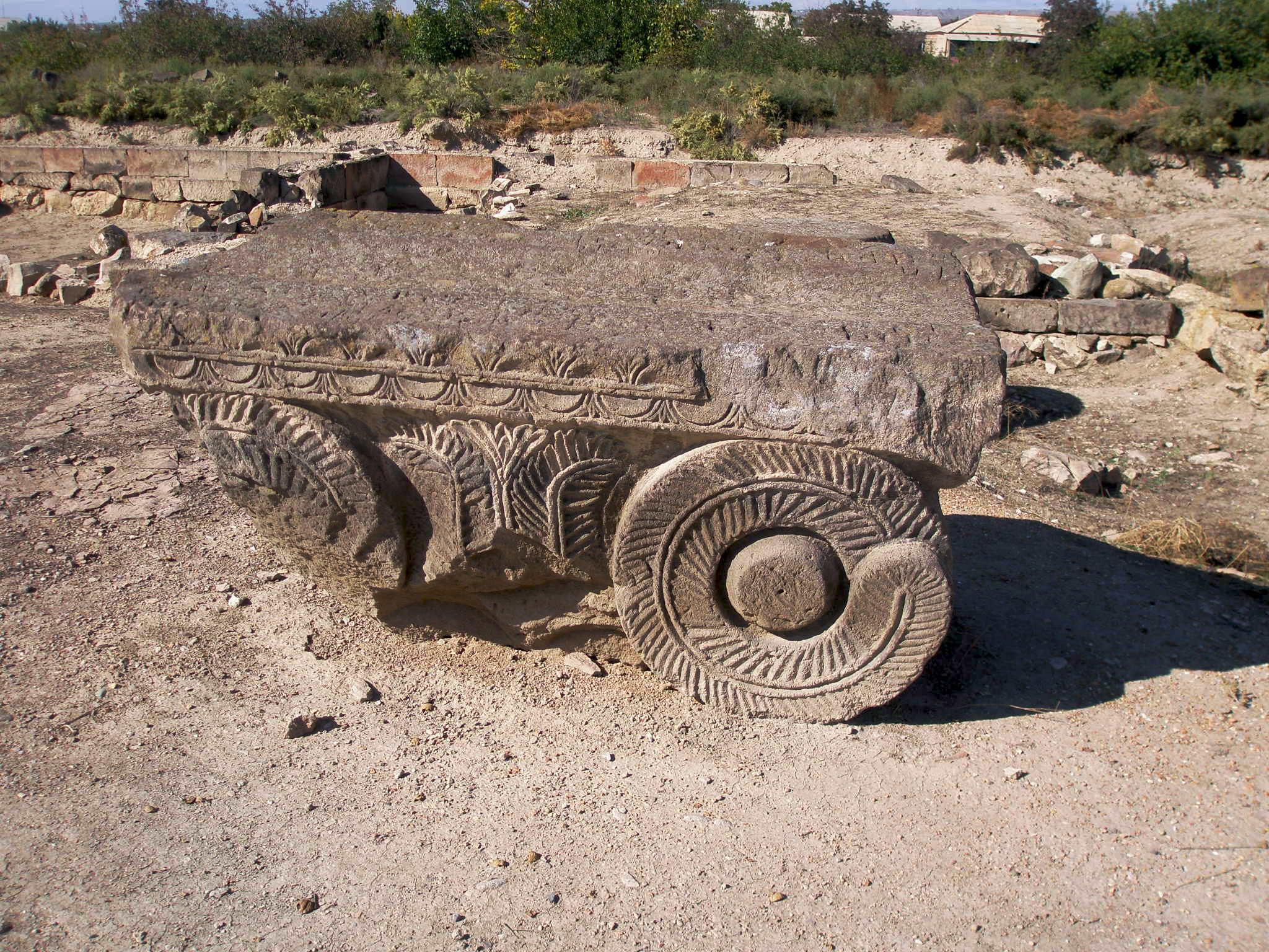 Ancient stone capital with fern-like relief at the archaeological site of Dvin, Armenia.